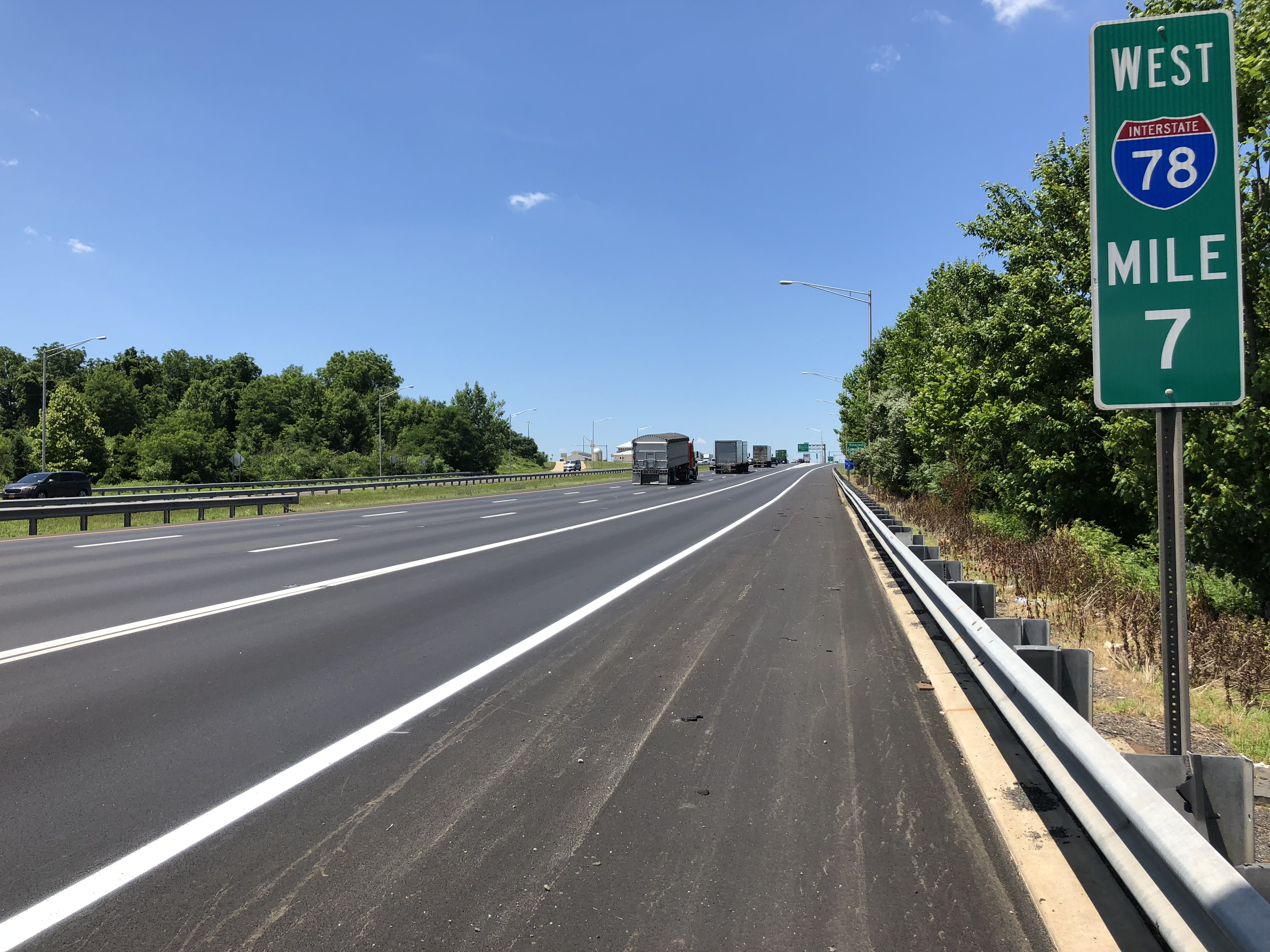 View west along Interstate 78 and U.S. Route 22 (Phillipsburg-Newark Expressway) between Exit 7 and Exit 4 in Franklin Township, Warren County, New Jersey